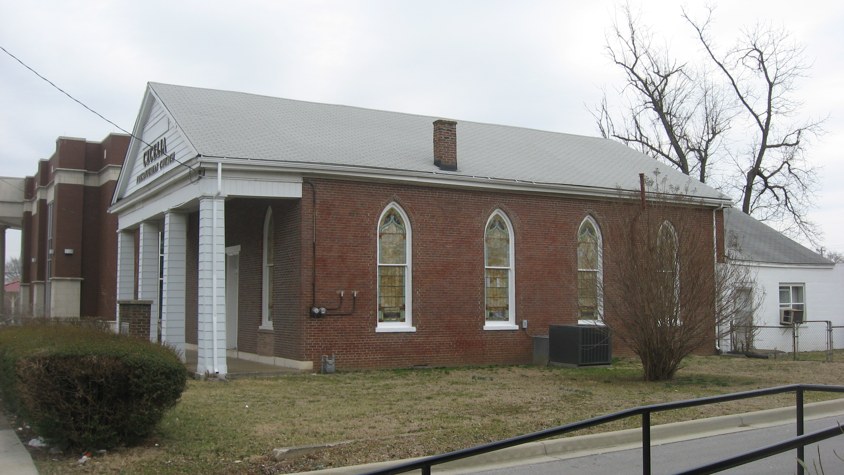 Western side and front of the Cecelia Memorial Presbyterian Church, located at 716 College Street in Bowling Green, Kentucky, United States. Built in 1845, it is listed on the National Register of Historic Places.